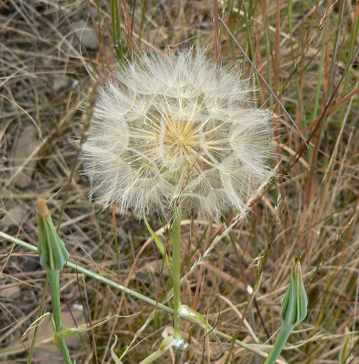 Tragopogon dubius on ridge above Cathedral Rock, just below the main South Loop ridge (0.5 km west of Mazie Spring), Spring Mountains, southern Nevada (elev. about 3100 m)